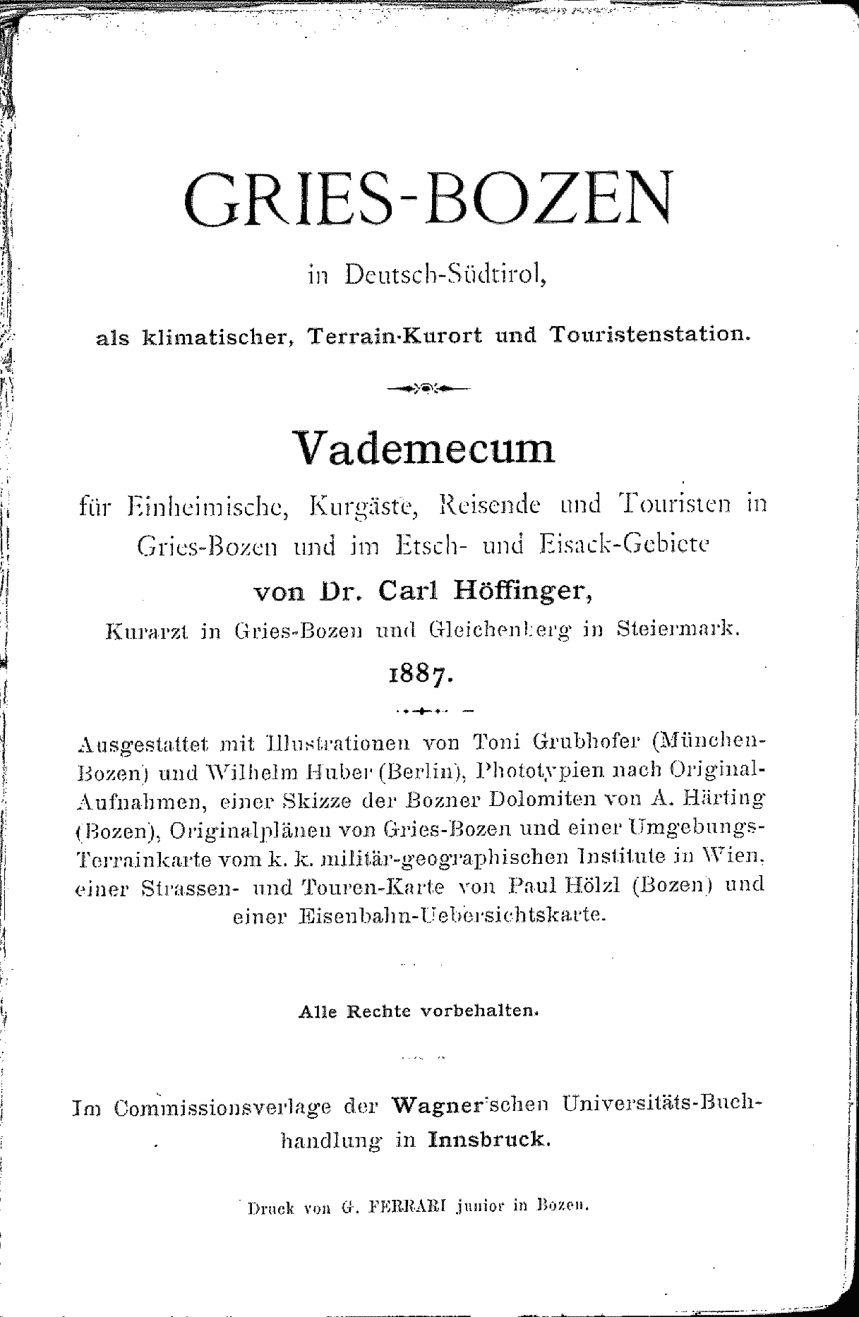 Frontispice of Carl Höffinger's monograph "Gries-Bozen in Deutsch-Südtirol"